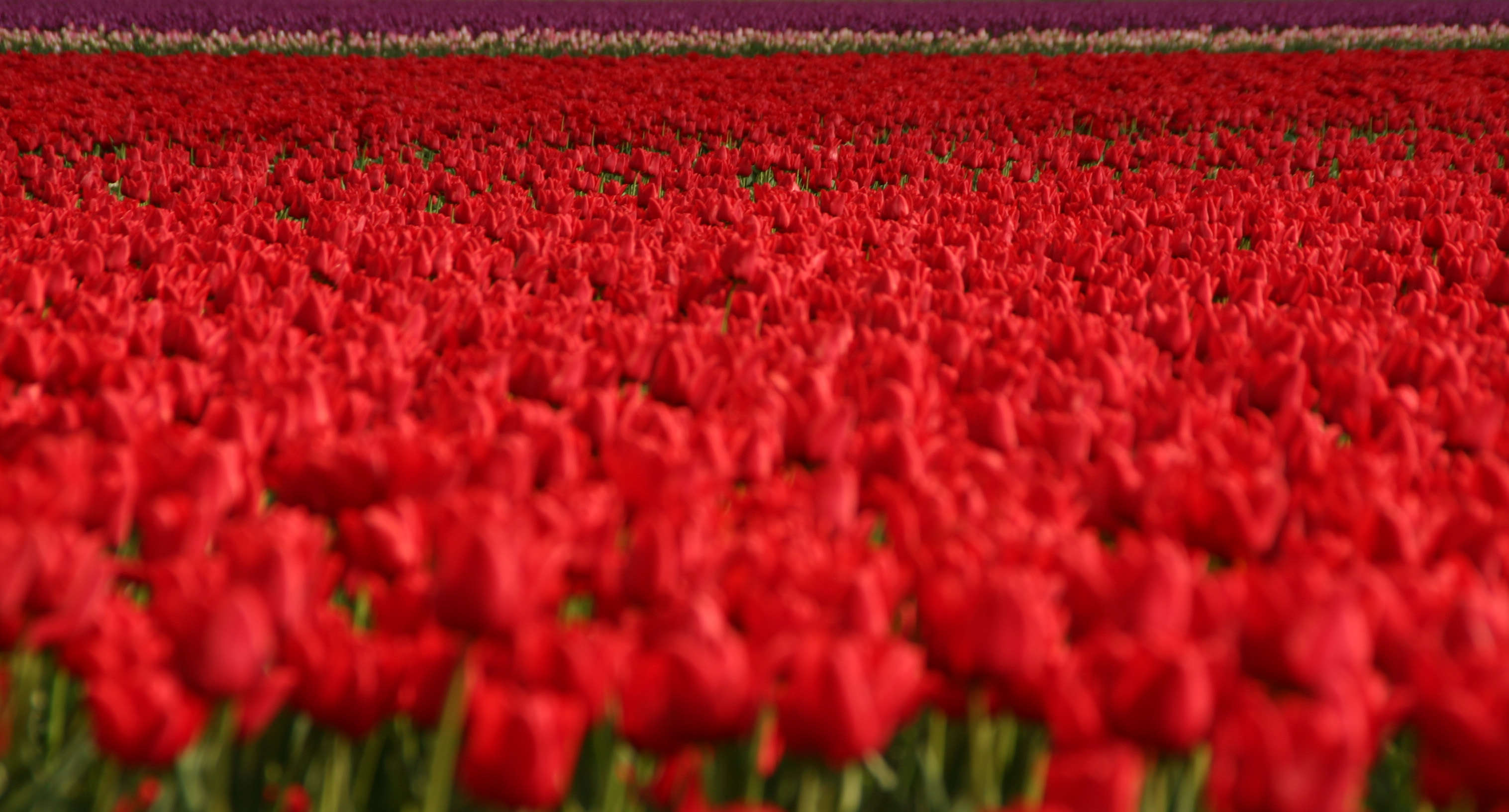 Field of Tulips, The Netherlands